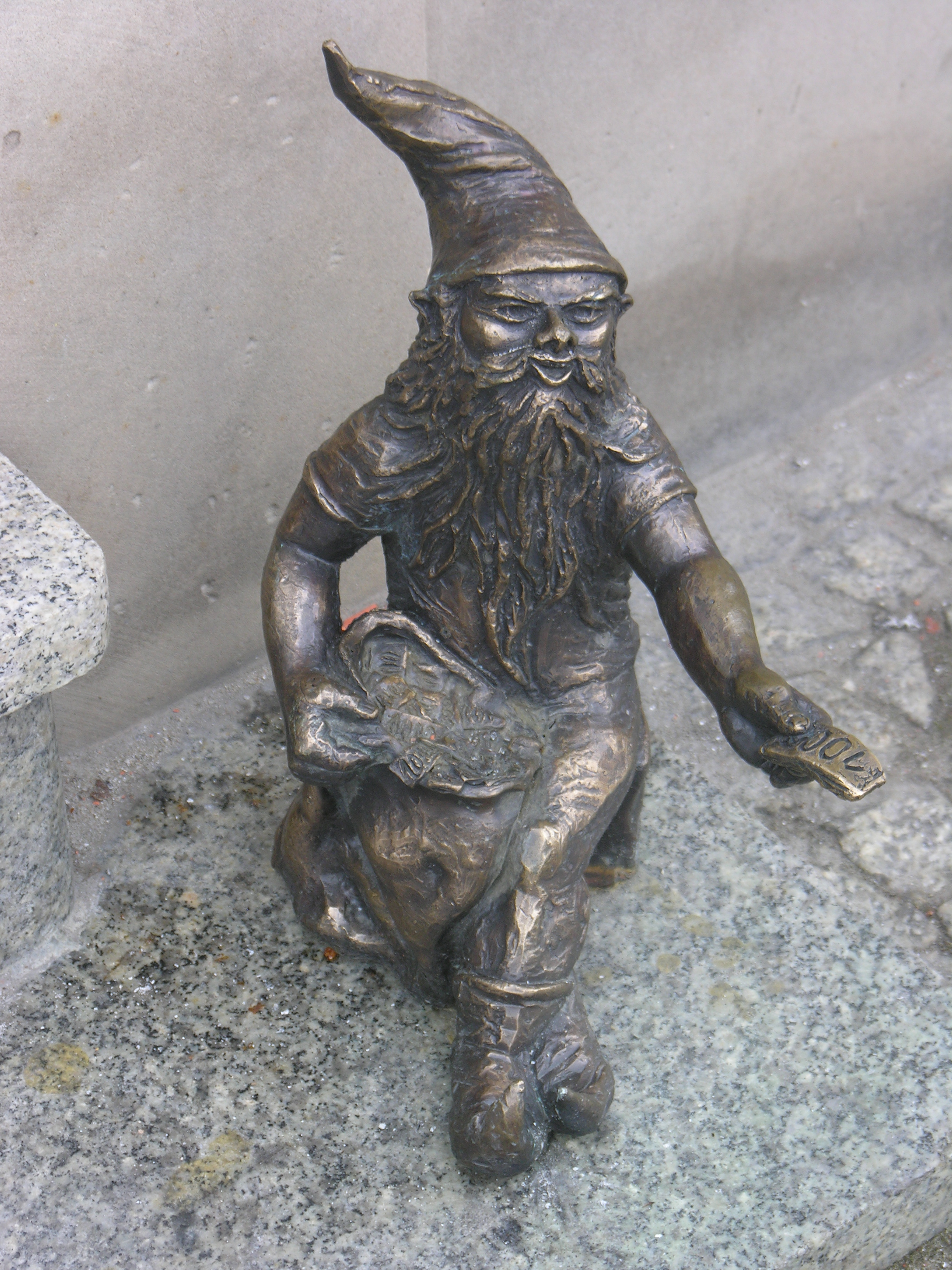 Banker (Bankuś) in front of House of the Seven Electors Rynek 9/11.